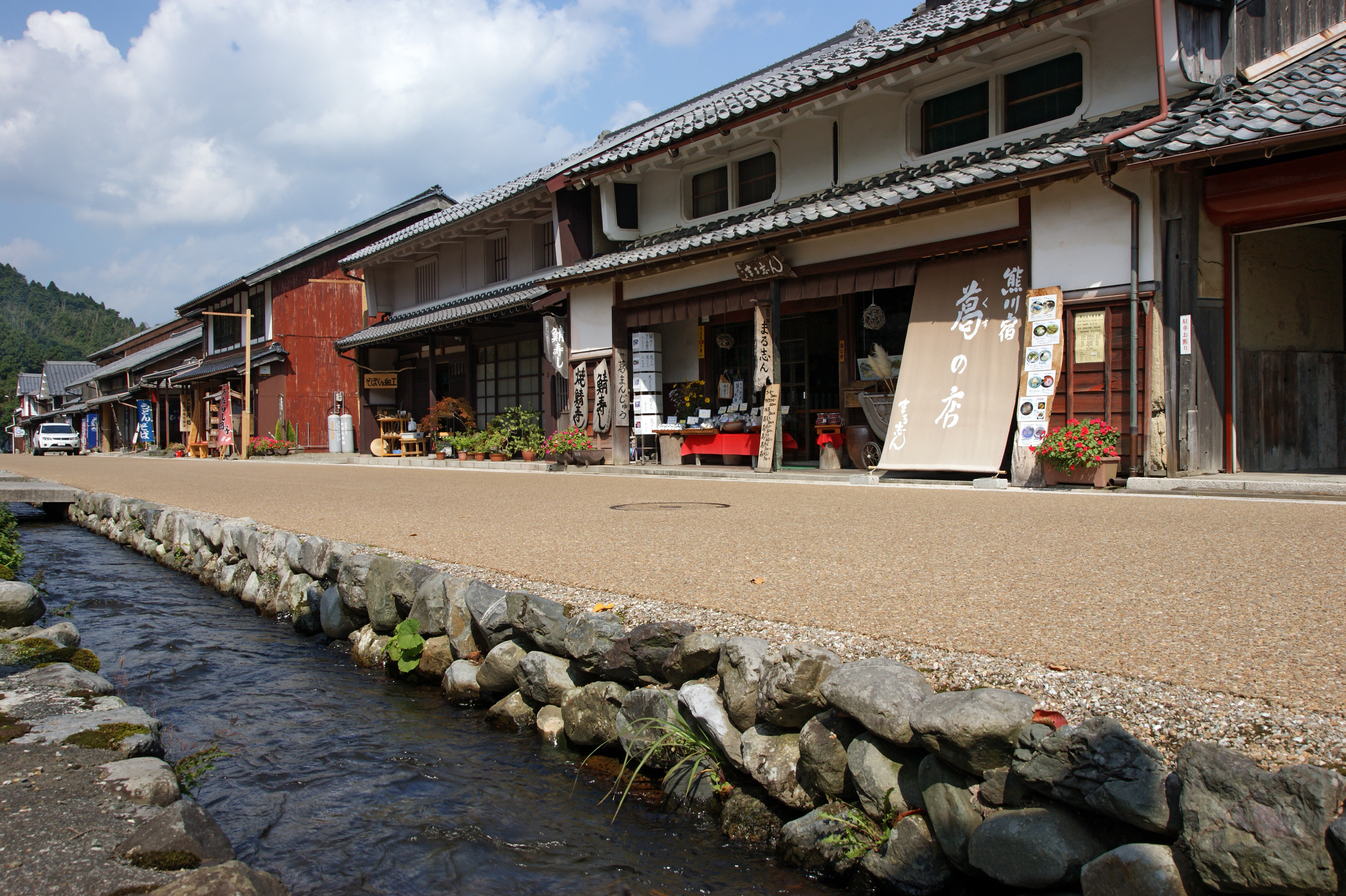 Kumagawa-juku, Wakasa, Fukui prefecture, Japan